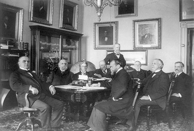 President William McKinley and his cabinet around table.